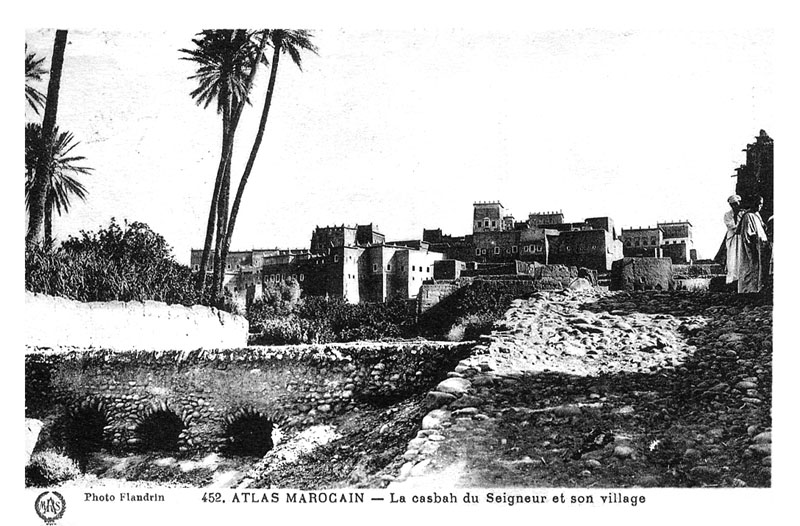 Ancienne photo d'une kasbah de l'Atlas (Maroc). A remark at conjectures that it is the Casbah of Ouarzazat in the 1920s; the postcard style may suggest an earlier date.